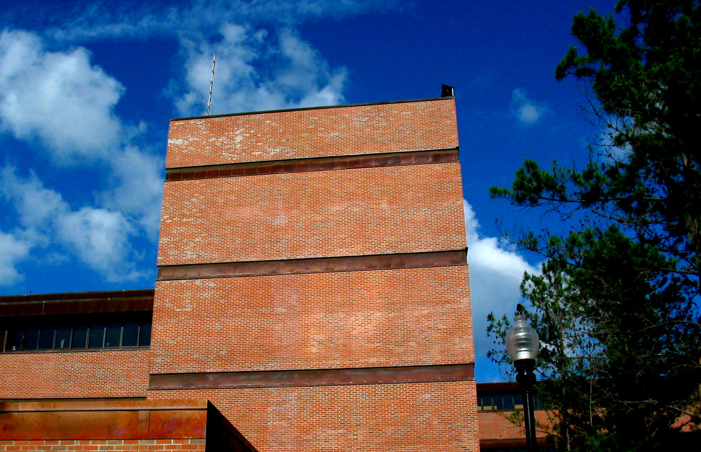 UF Marston Science Library Brick Red Blue Sky Clouds Tree Light Pole